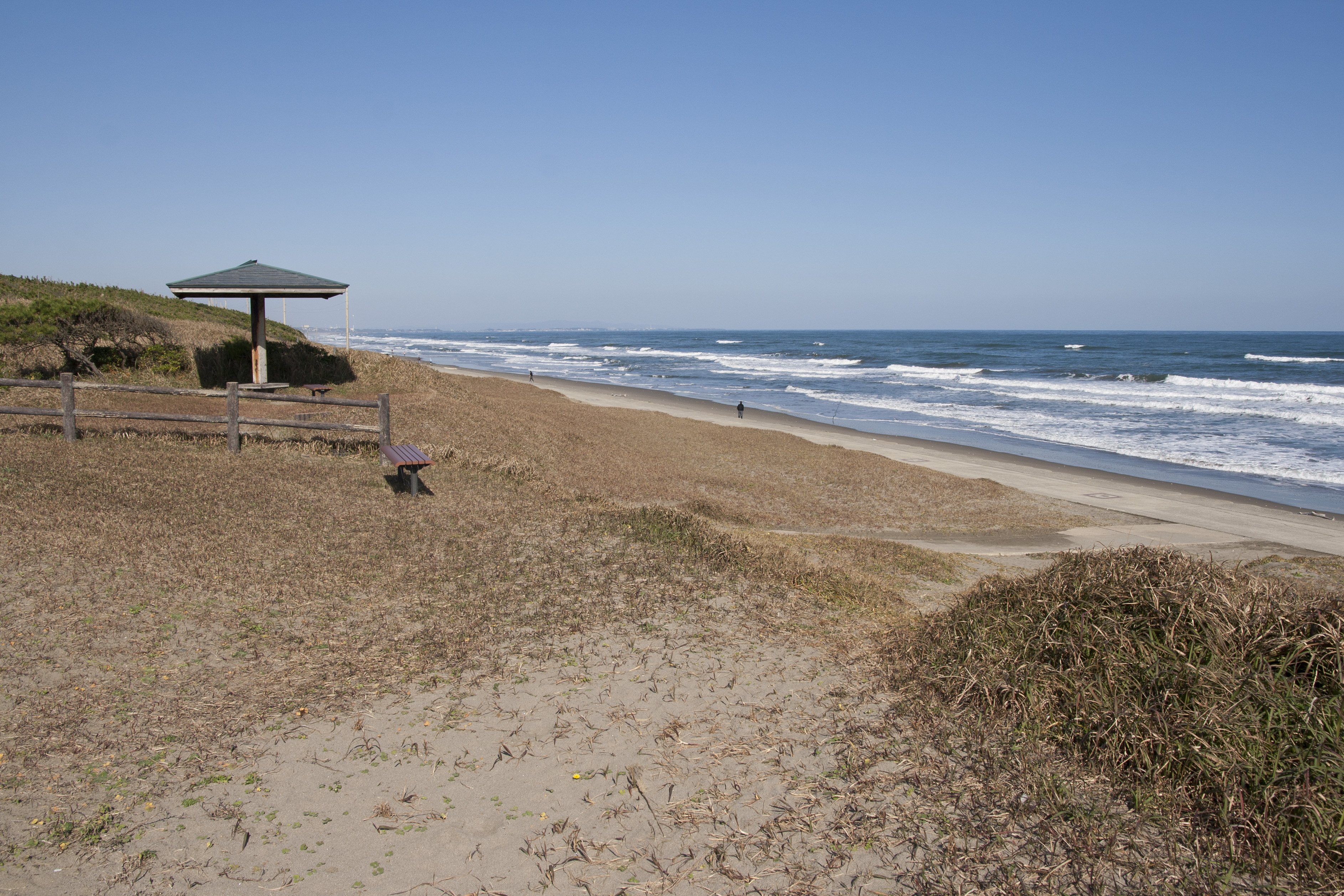 Otake Coast, Hokota City, Ibaraki Prefecture, Japan.